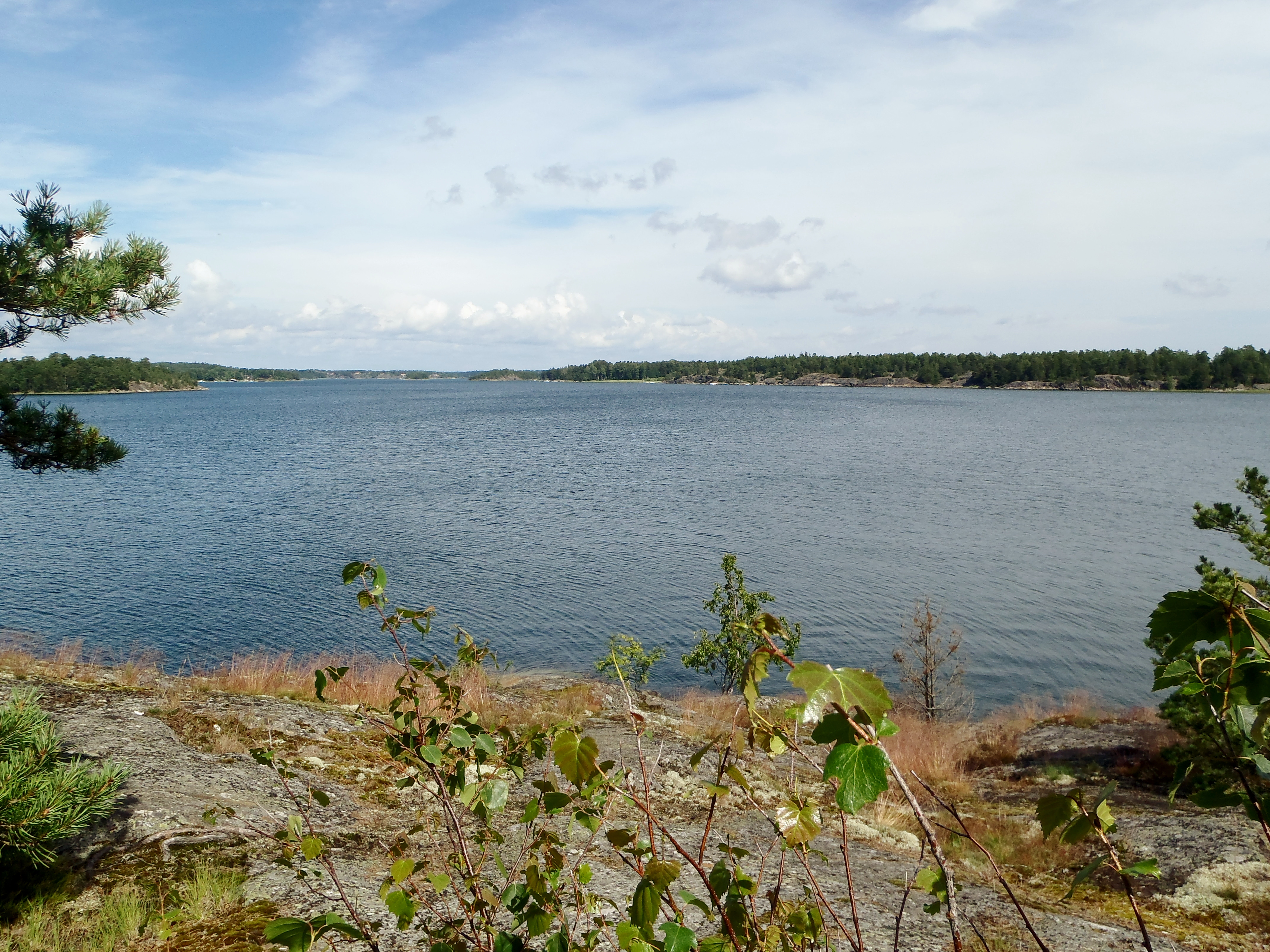 Älgöfjärden. View from Bullandö, Värmdö, Sweden. In the background on the right: Stora Älgön